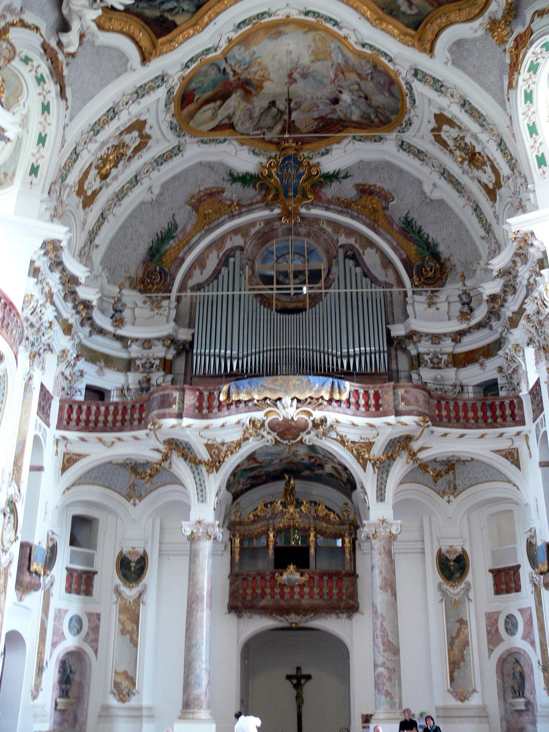 Osterhofen monastery church. Church gallery with organ.